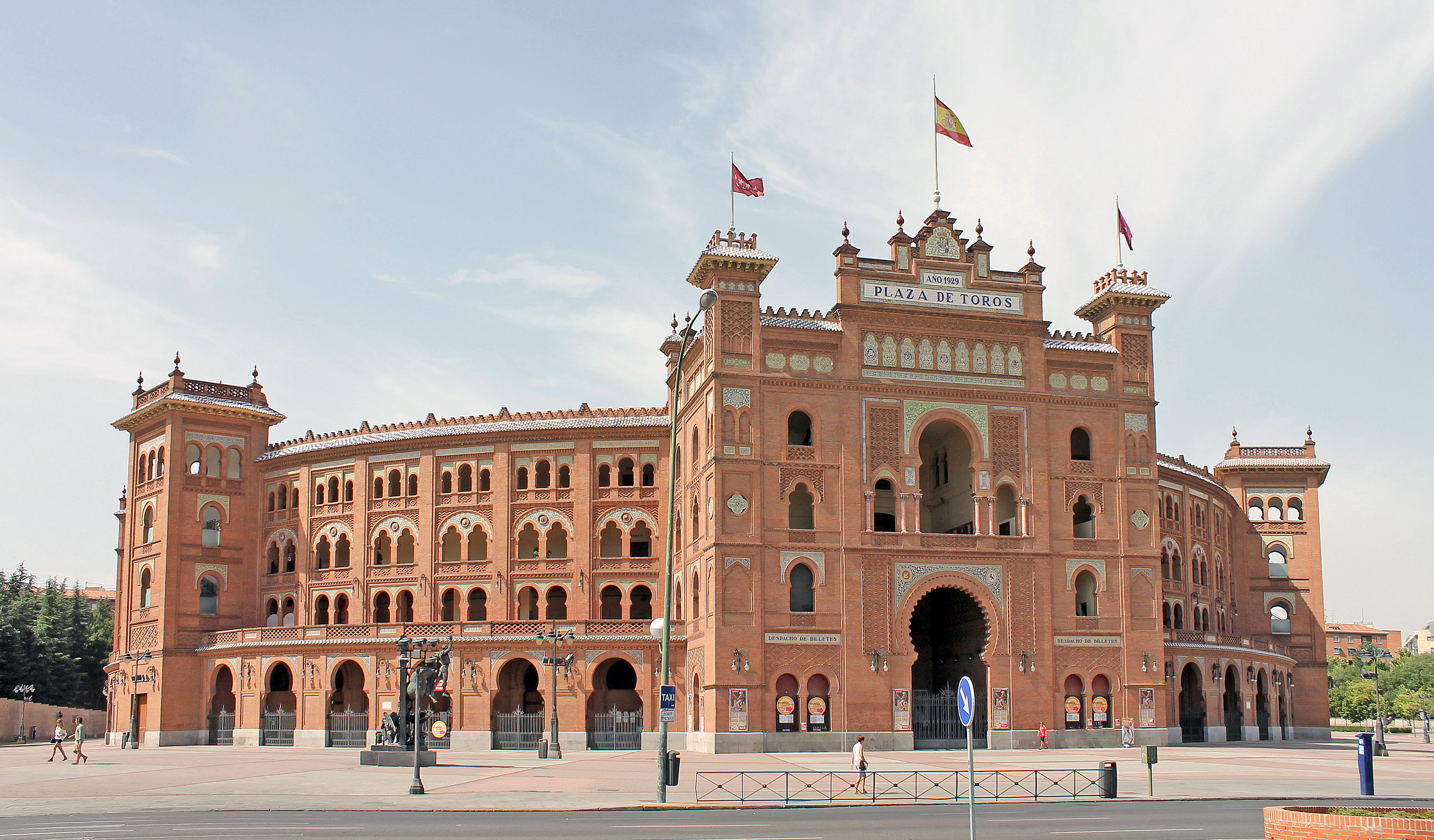 View of Las Ventas Bullring in Madrid (Spain) from Calle de Alcalá (street).